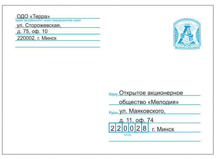 Belpost marked cover.